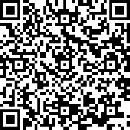 "Wikipedia ist ein Projekt zum Aufbau einer Enzyklopädie aus freien Inhalten in über 270 Sprachen, zu dem du mit deinem Wissen beitragen kannst." (Meaning: "Wikipedia is a project for building a free encyclopedia in more than 270 languages ​​to which you can contribute with your knowledge." Encrypted as QR Code